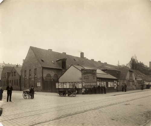 Anker Heegårds Jernstøberi (Blågårdsgade 20) in Blågårdsgade in Copenhagen, Denmark